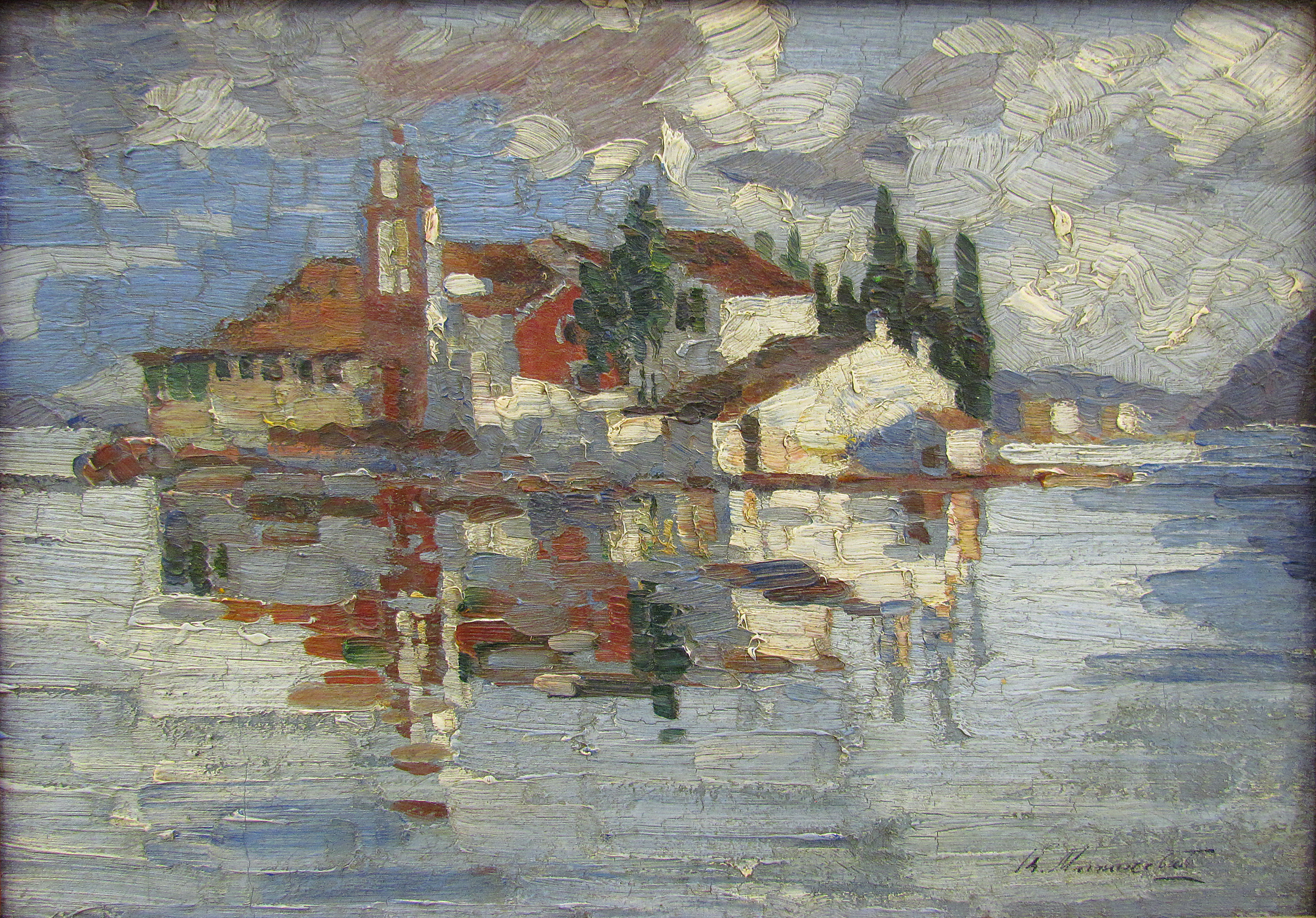 Kosta Miličević, Landscape of Corfu, 1918